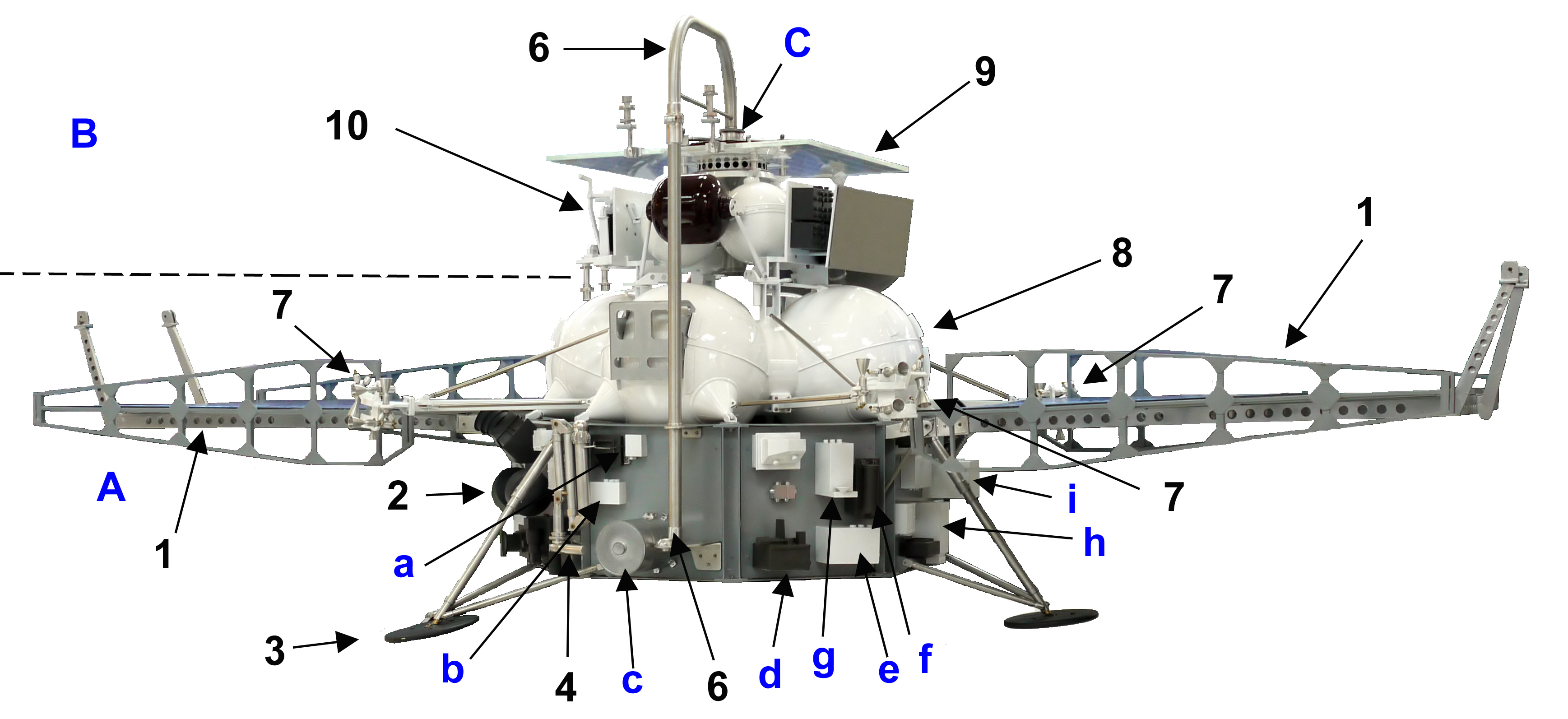 Model of Phobos Grunt spacecraft by Roscosmos at the 2011 Paris Air Show.